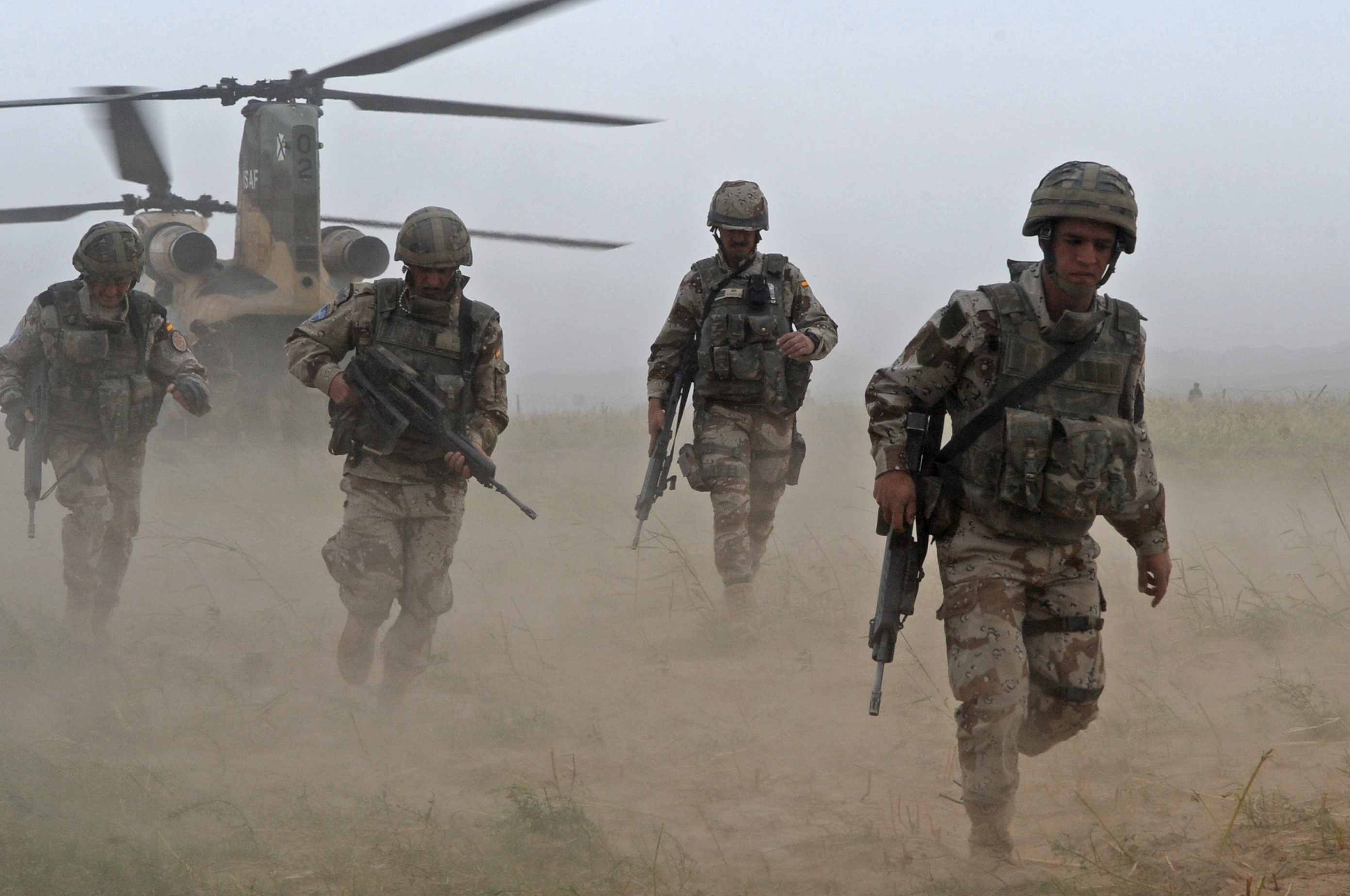 Spanish army paratroopers from the 3rd Bandera exit a CH-47 Chinook helicopter at Bala Murghab Forward Operating Base during an International Security Assistance Force mission, Sept. 27, 2008. ISAF is assisting the Afghan government in extending and exercising its authority and influence across the country, creating the conditions for stabilization and reconstruction.